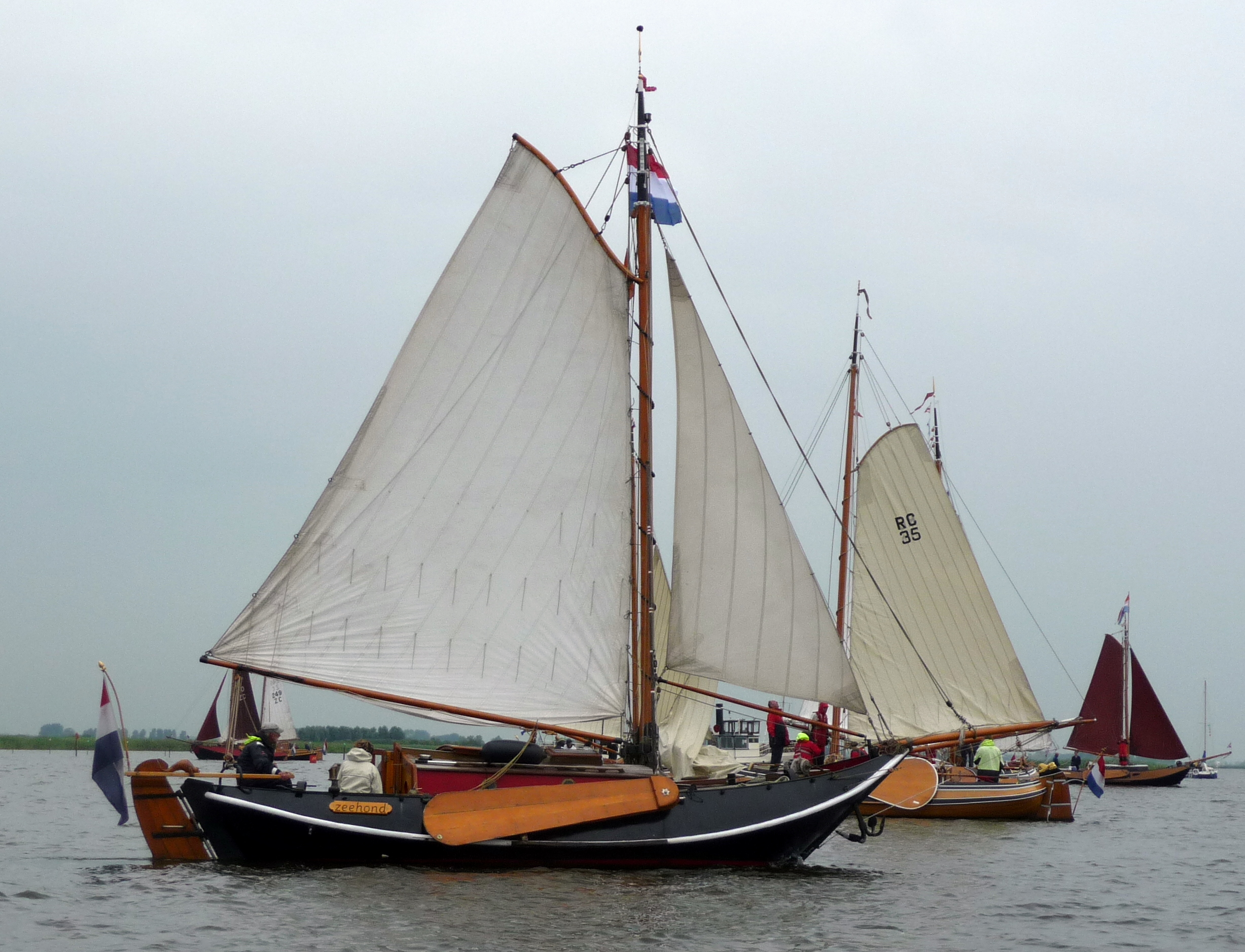 The Hoogaars Zeehond. In the background, Boeier Maartje (RC 35) can be seen. The photo was shot during the admiraalzeilen at the VSRP 2010 reunion. SSRP entry for Zeehond] SSRP entry for Maartje (RC 35)]